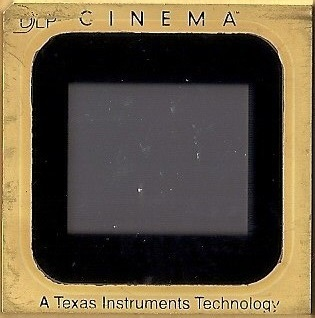 DLP CINEMA. A Texas Instruments Technology - Photo Philippe Binant